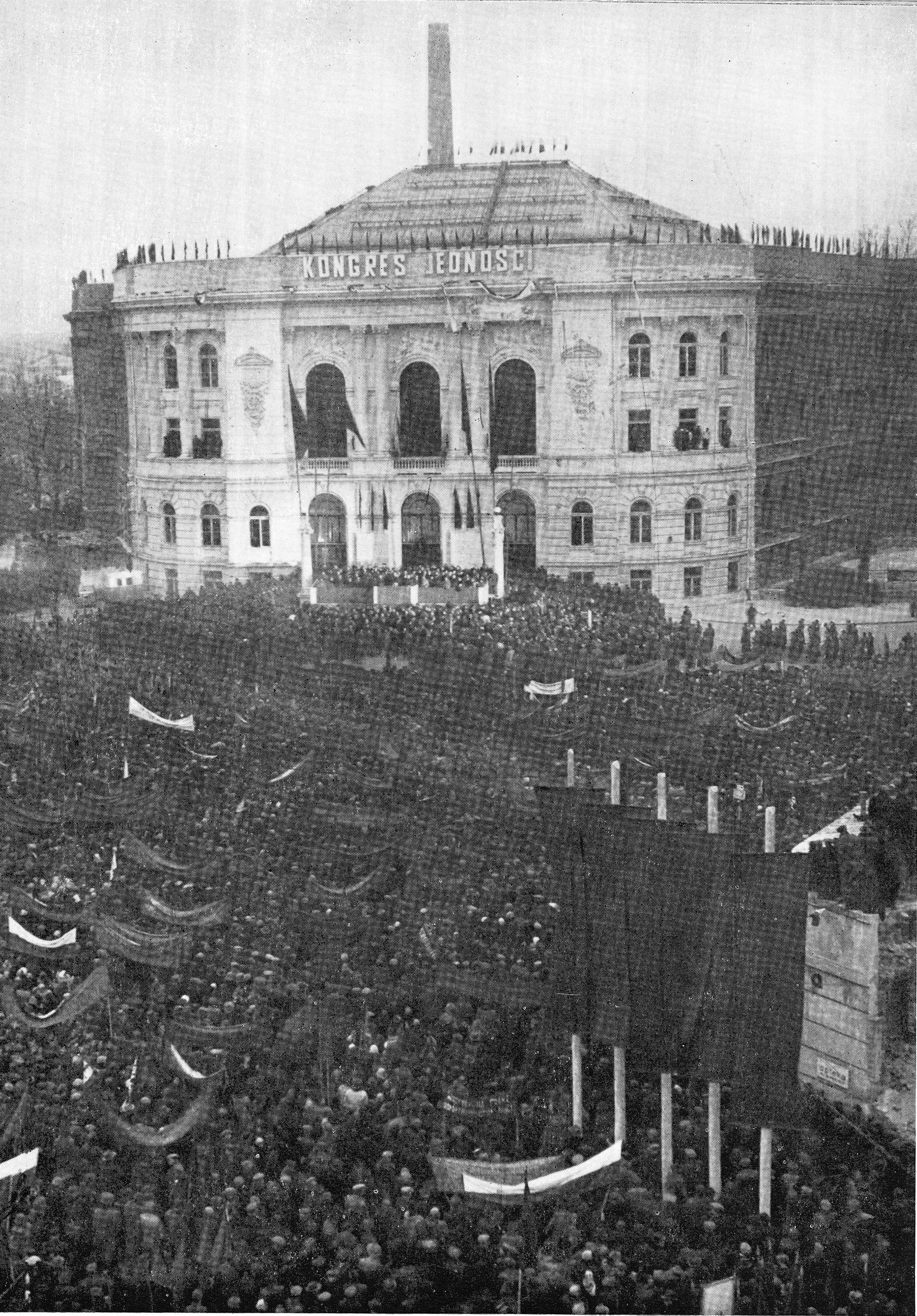 Rally in Politechnika Square during the PPS-PPR unification congress